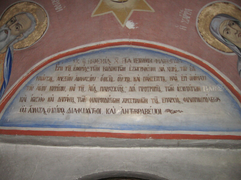 Gorni Voden Monastery Fresco